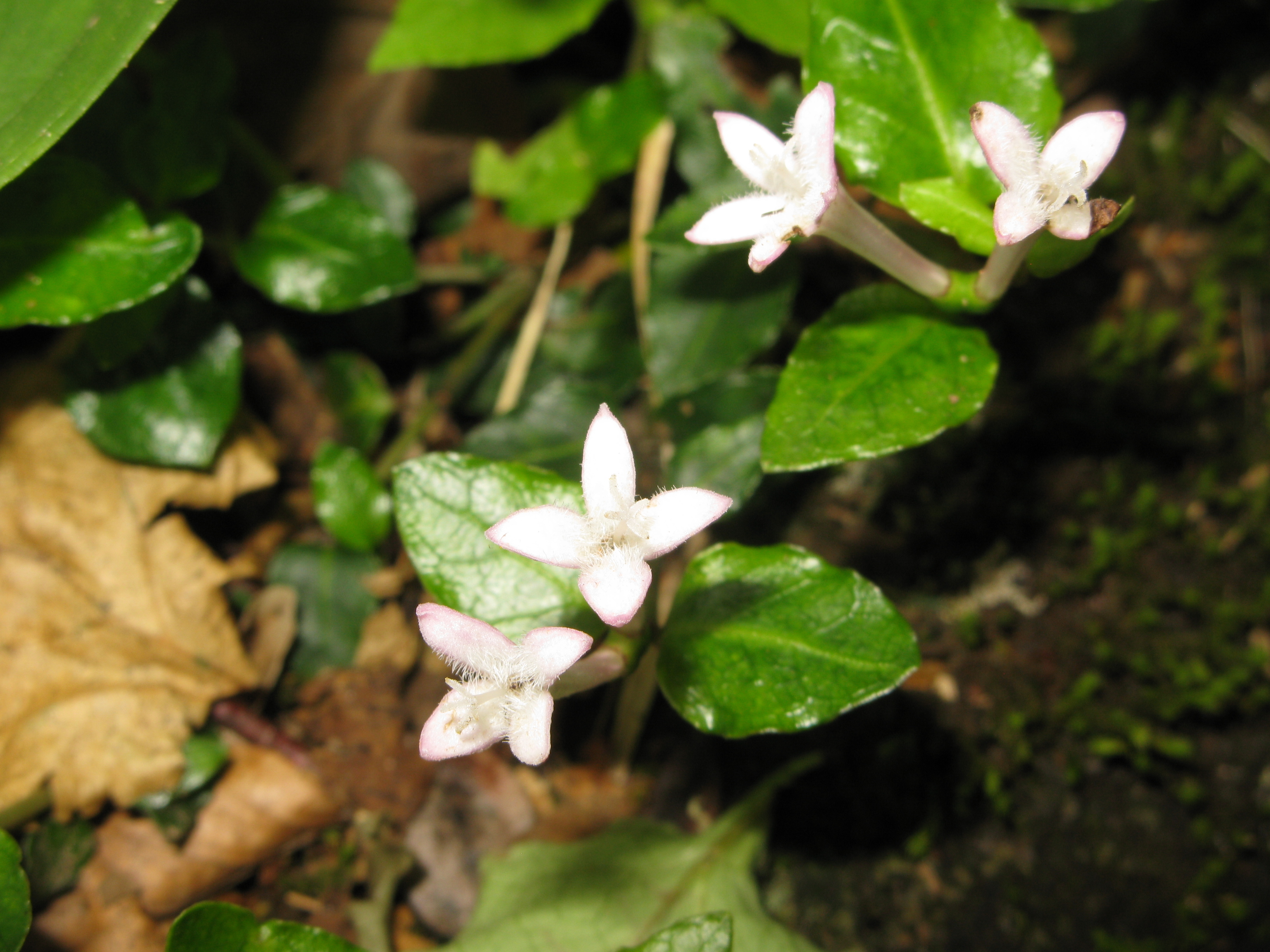 Mitchella undulata, Mount Chōkai, Yamagata pref., Japan